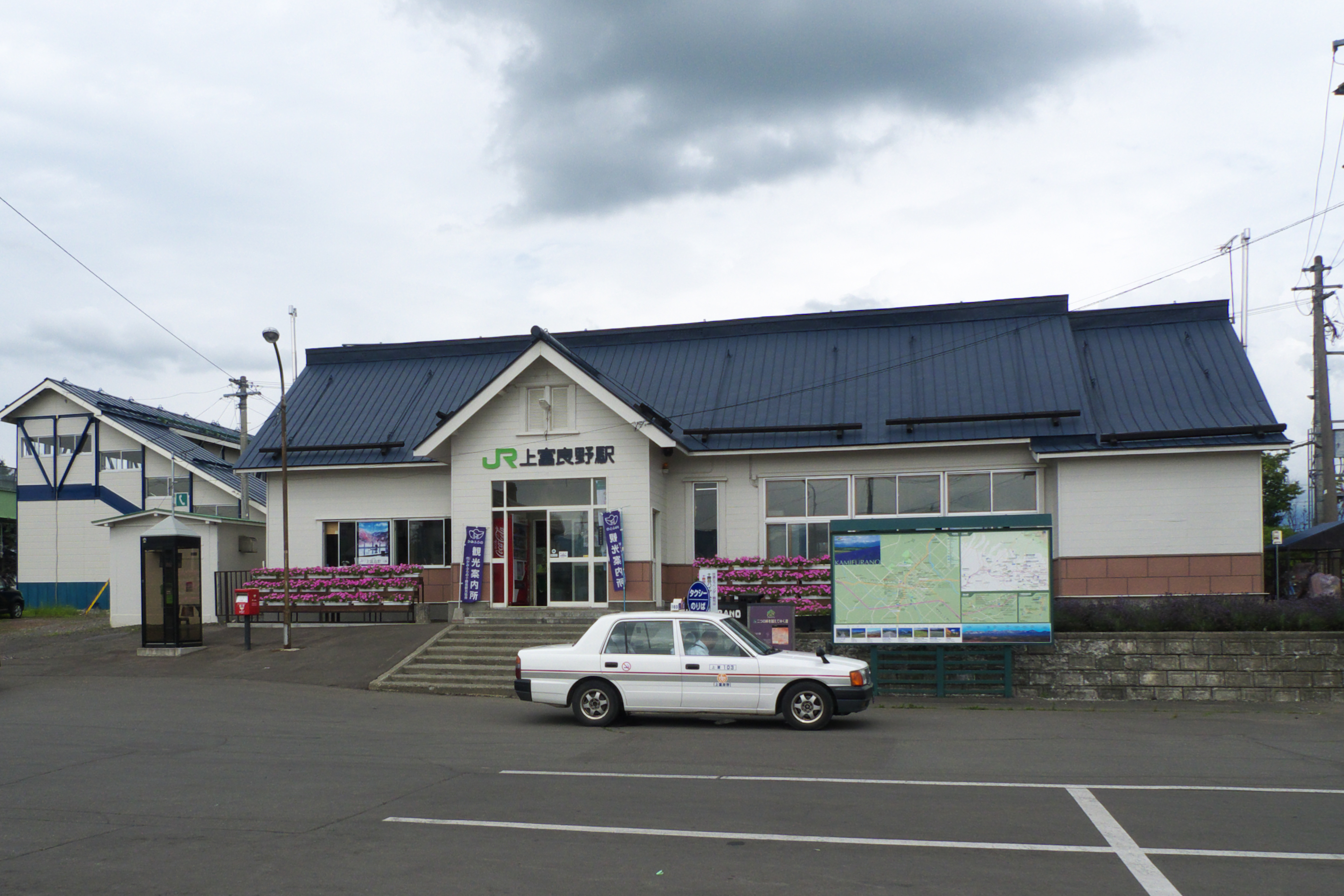 Kamifurano Station on the Hokkaido Railway Company (JR Hokkaido) Furano Line in Kamifurano Town, Hokkaido, Japan